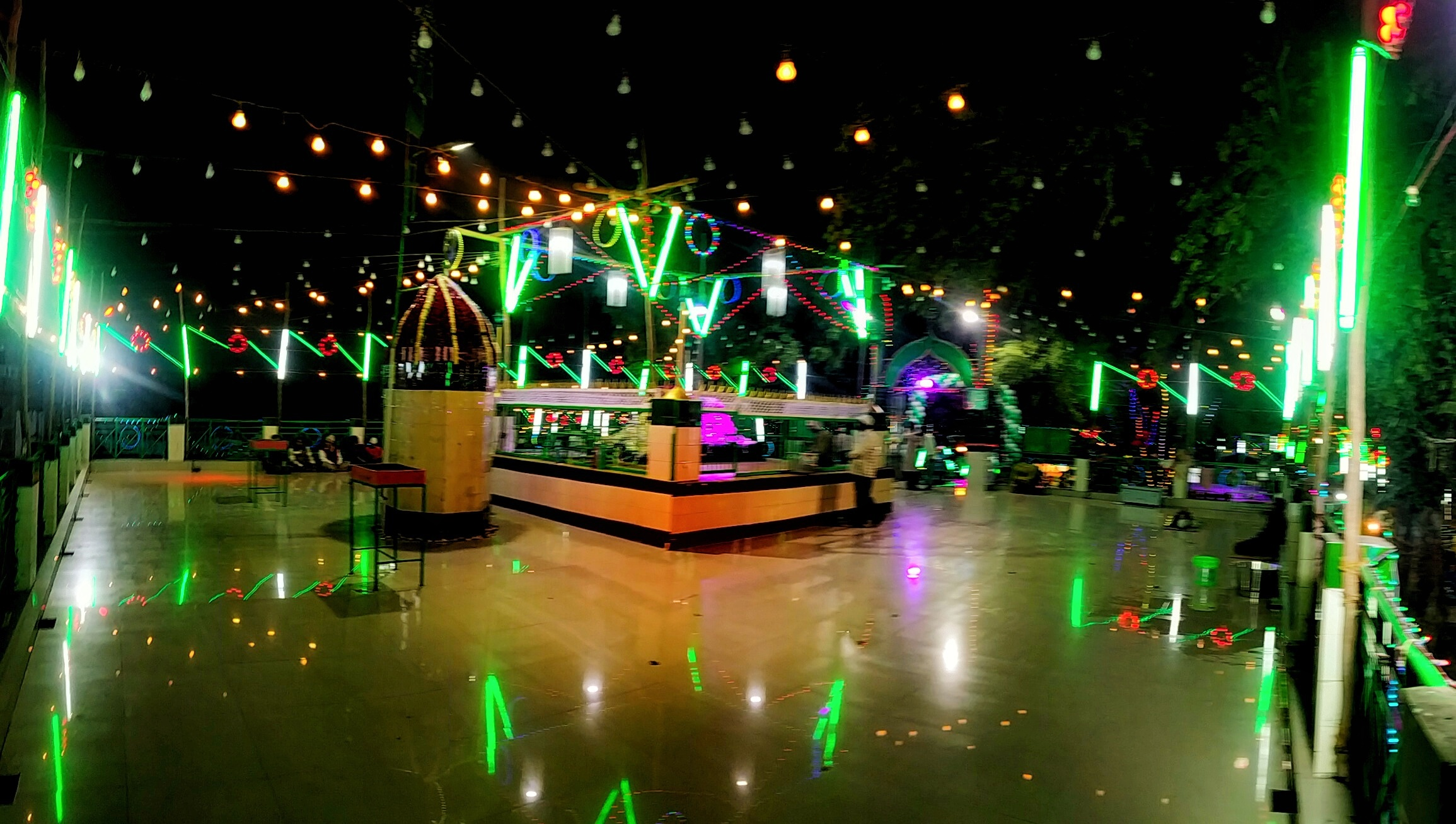 Shah Muhibbullah Allahabadi Dargah kydganj Allahabad Up India